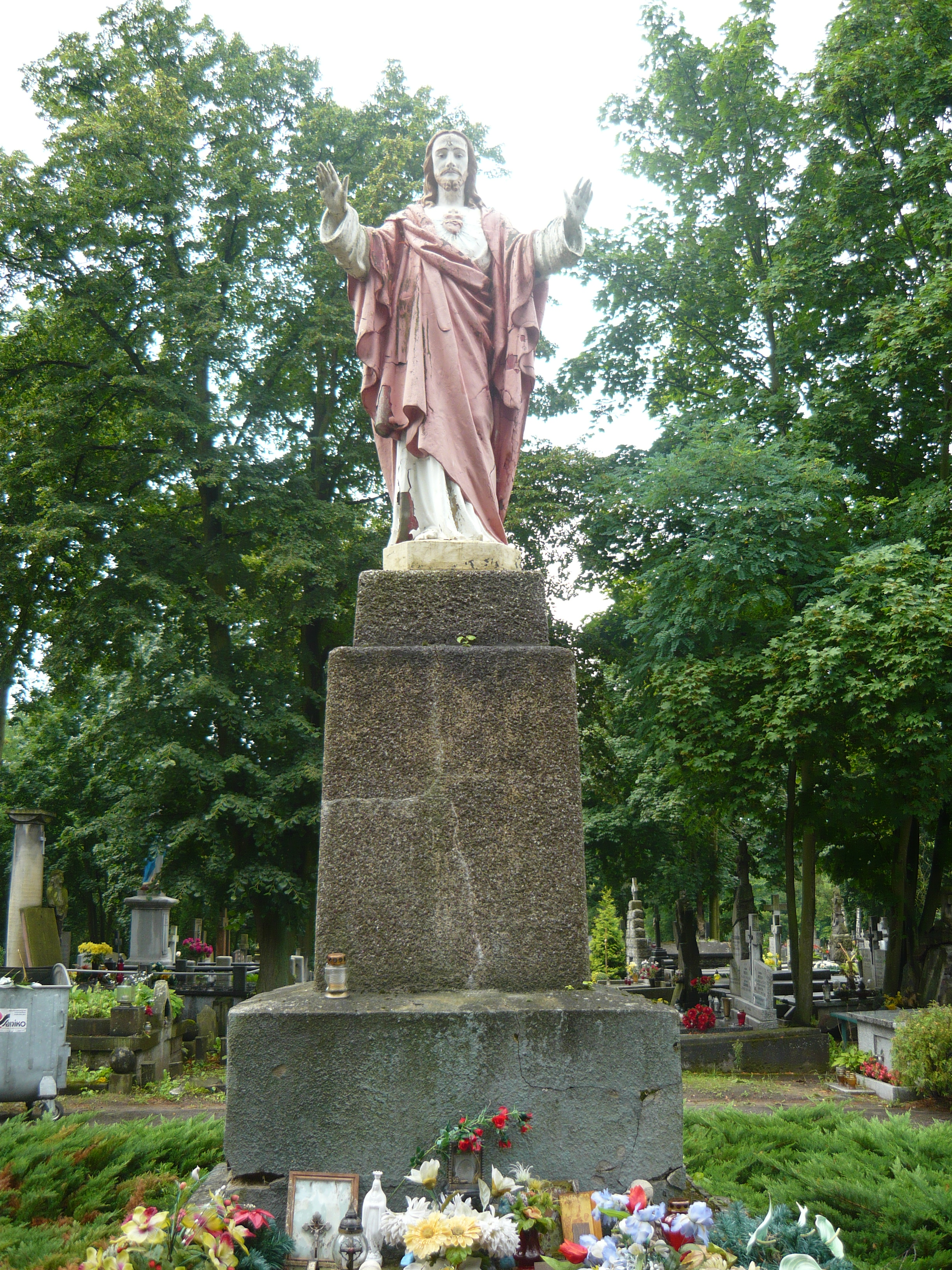 The monument of the Jesus of Nazareth on Włocławek's graveyard.